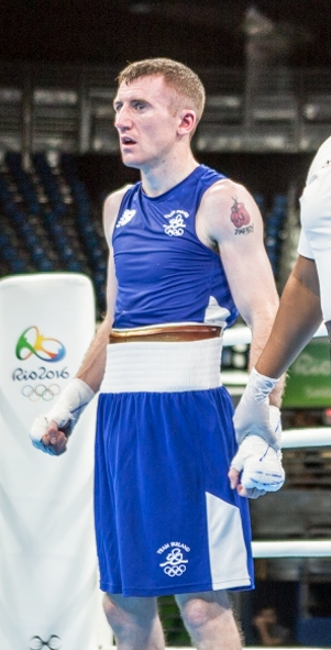 Day 3 Boxing 49 kg. Round of 16, Samuel Carmona (Spain) vs Paddy Barnes (Ireland)